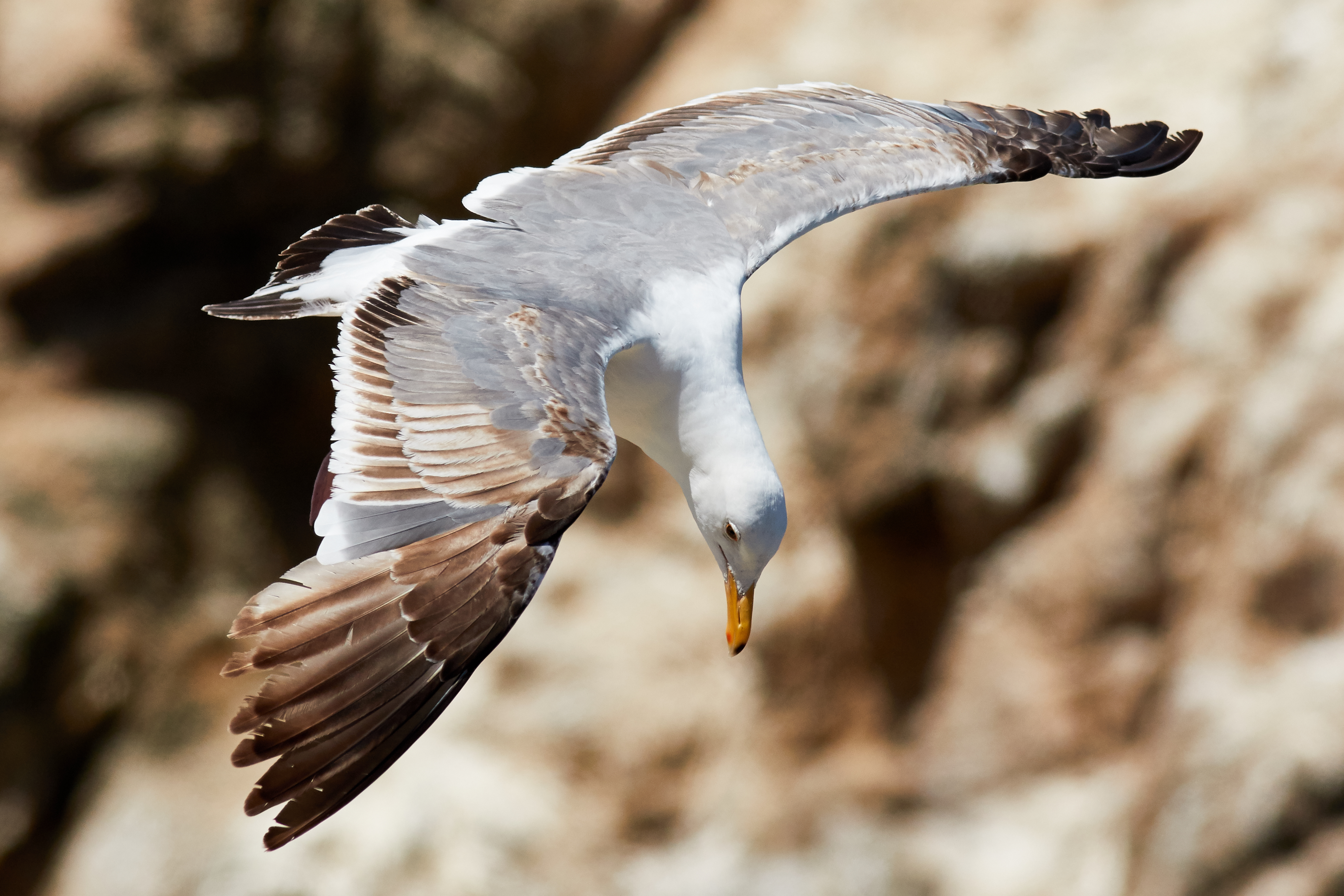 Immature Western Gull (Larus occidentalis occidentalis) in flight at Bodega Head, California